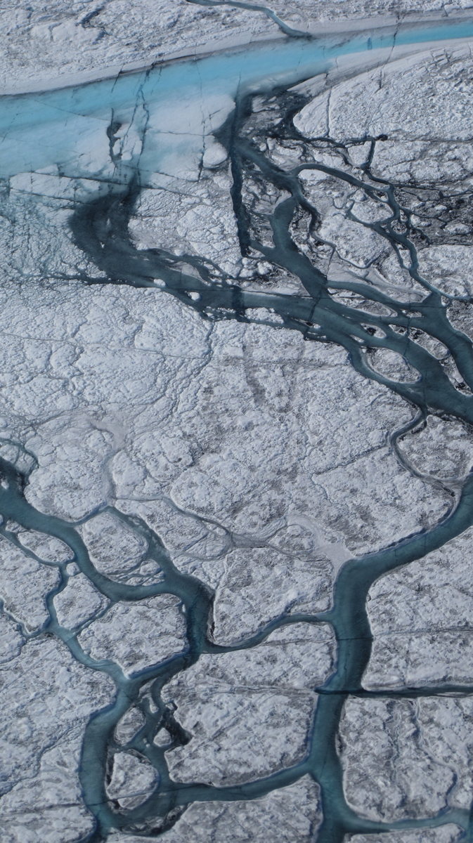 A large stream of meltwater (about 5 to 10 meters in width) emerges from an upstream supraglacial lake in the Greenlandic ice on July, 21 2012, as seen from a helicopter by researcher Marco Tedesco. The darker shapes are minor streams covered by cryoconite (a mix of dust particles, soot, meteorite dust and organic material) which covers the ice sheet. Cracks cutting through the streams are visible. Along these cracks water can flow through, enlarging them and, eventually, generating moulins that can deliver meltwater through the ice. Photo credit: M. Tedesco/CCNY